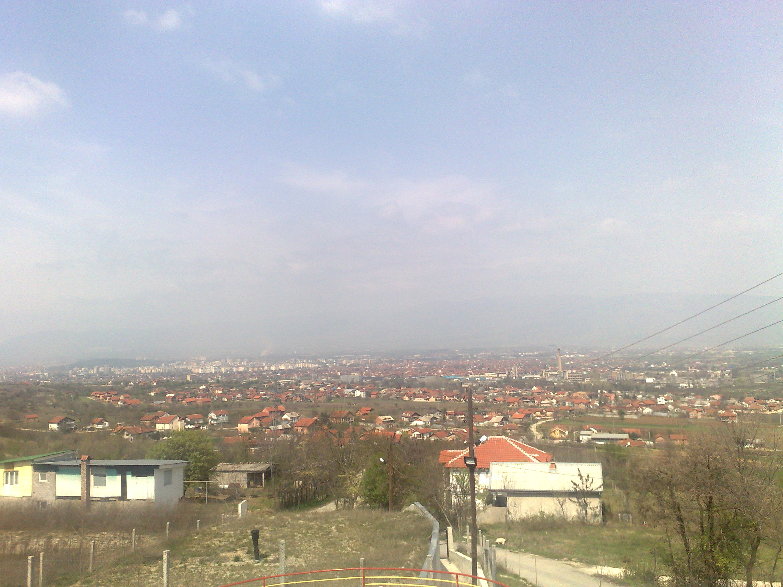 Pintija suburb, Skopje, Macedonia